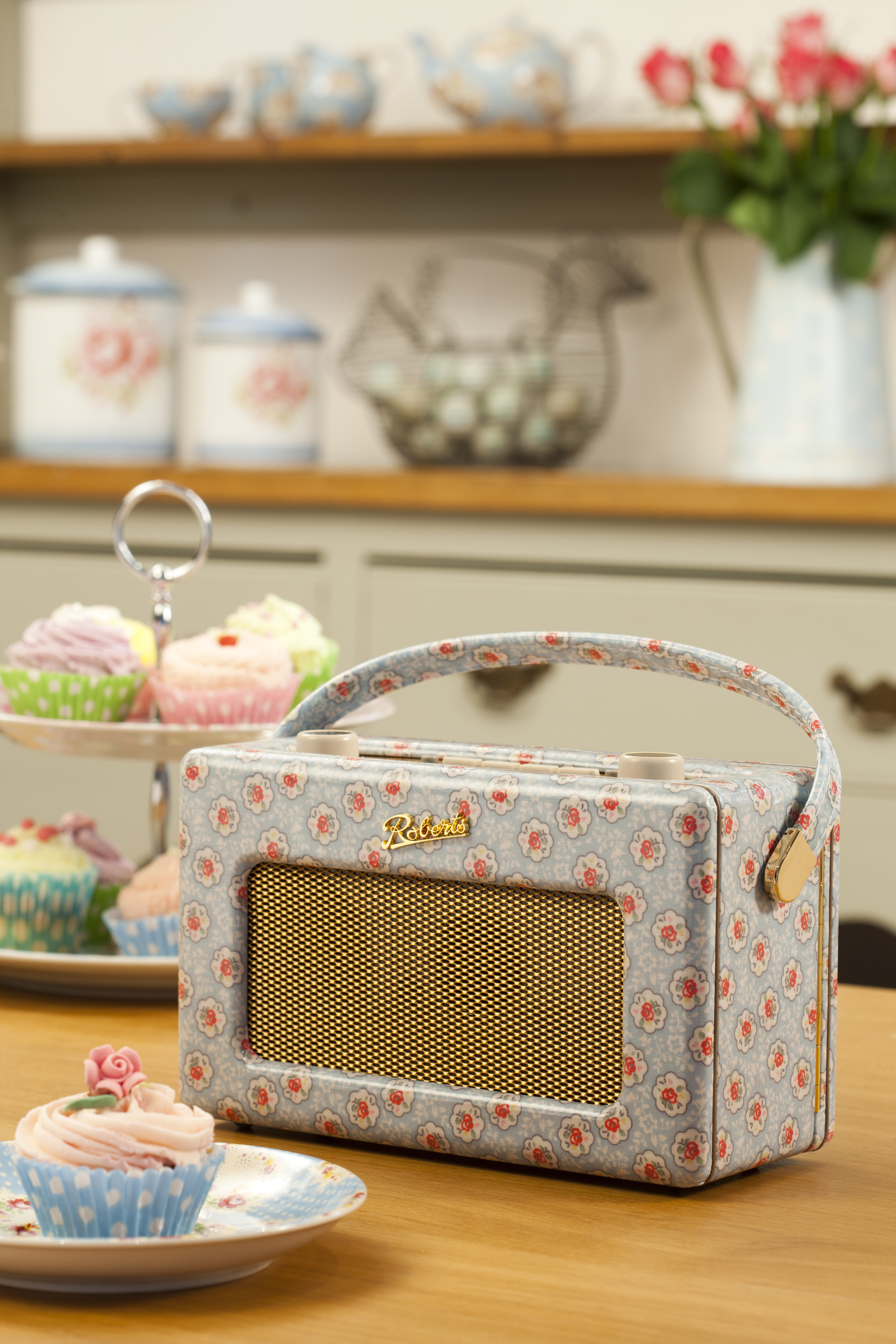 This Radio was part of the Cath Kidston and Roberts Radio collaboration and special edition radios.